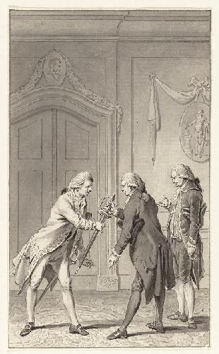 Suffren receiving a golden sword from the Dutch government in 1784. Gift in gratitude for having defended the colonies in the Netherlands Indies between 1781 and 1783.